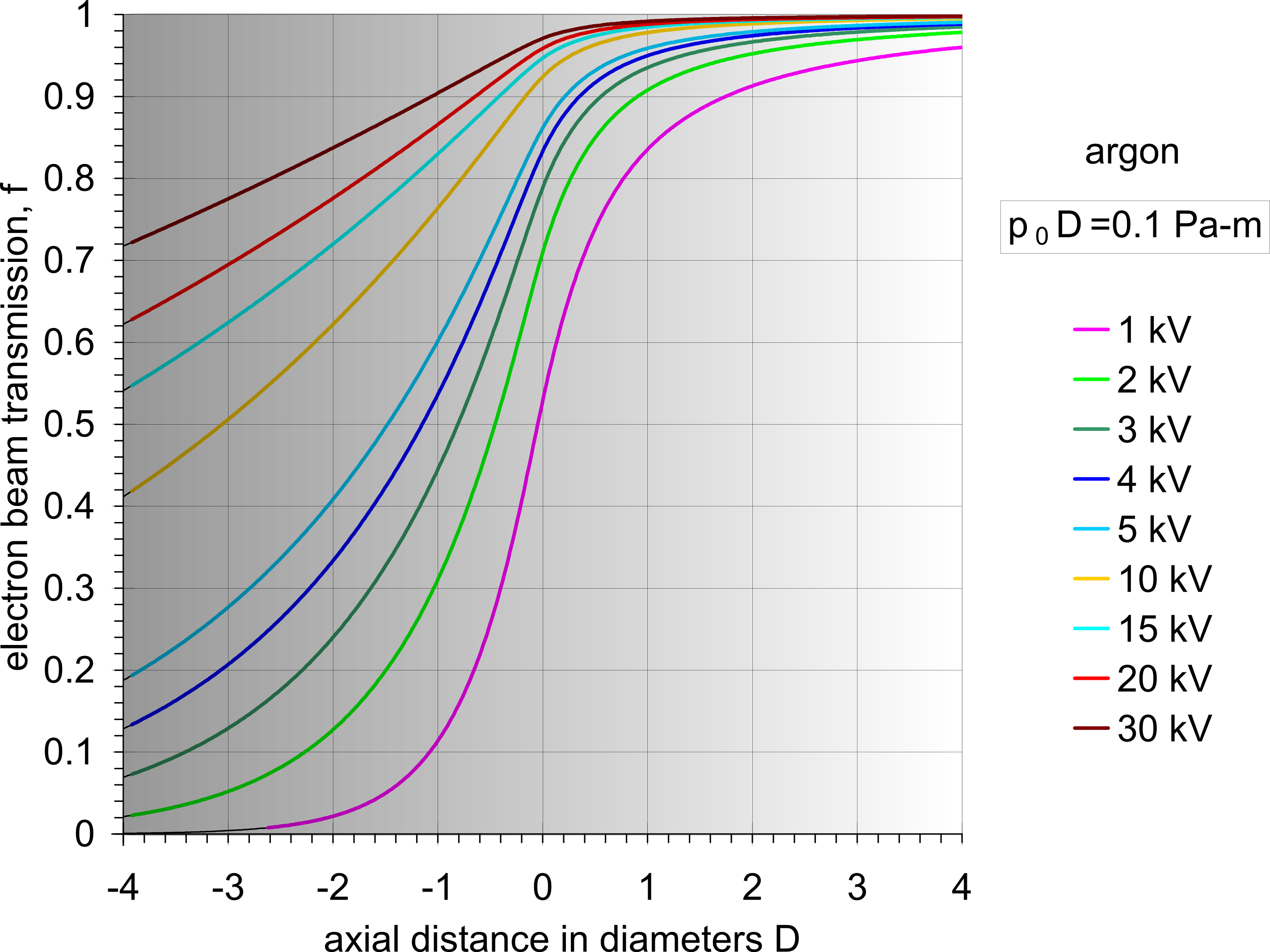 Electron beam transmission factor f in ESEM for argon along the axis of pressure limiting aperure PLA1, as the beam travels from top (positive axis) to bottom (negative axis), with fixed values of accelerating voltage shown in kV for the given value of the product p0D, where p0 is the specimen chamber pressure.